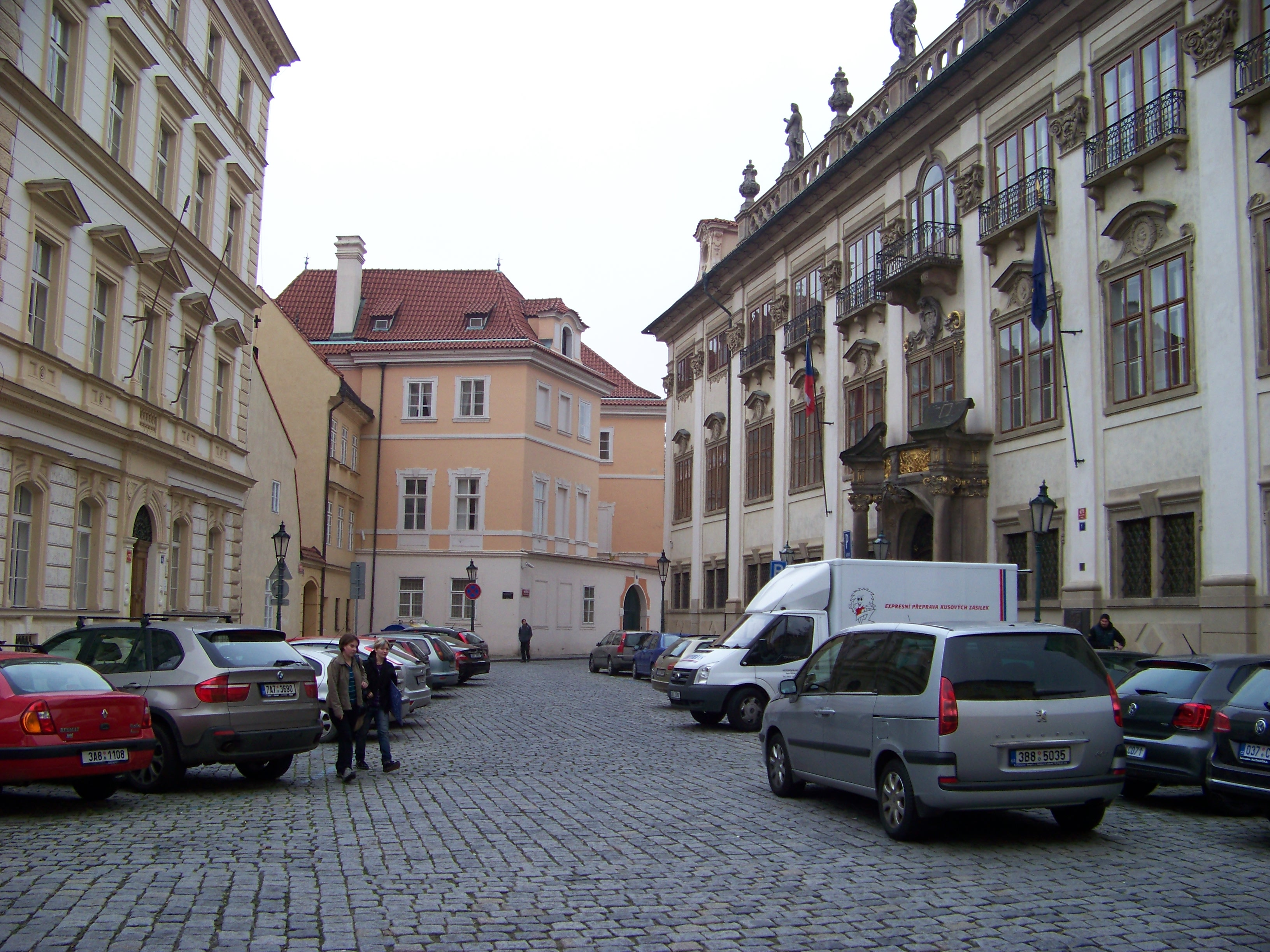 Prague-Malá Strana, the Czech Republic. Maltézské Square, the south part. - OpenStreetMap(Info)